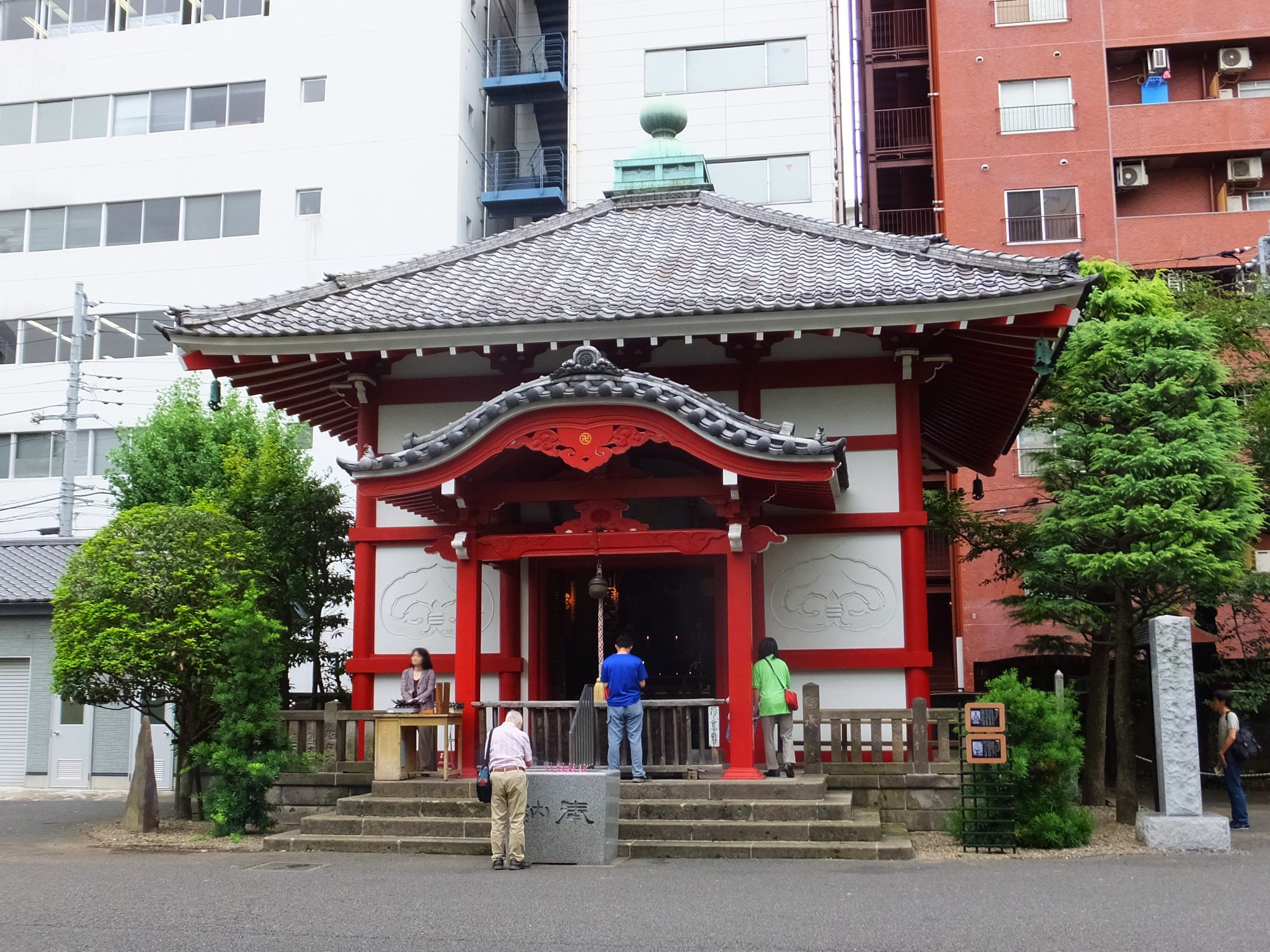 En'ma-dō hall at Taisō-ji temple in Shinjuku, Tokyo